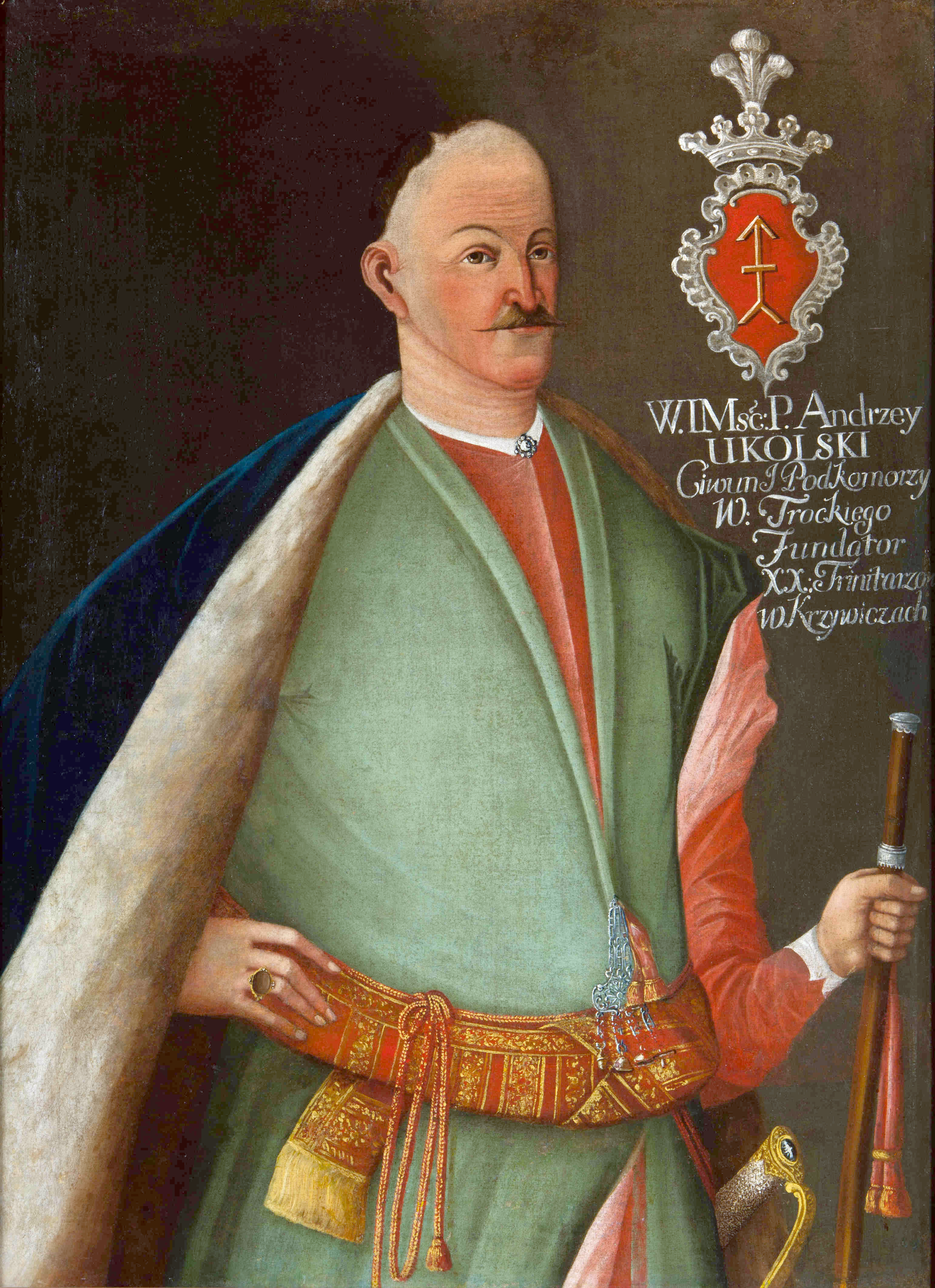 Andrzej Ukolski